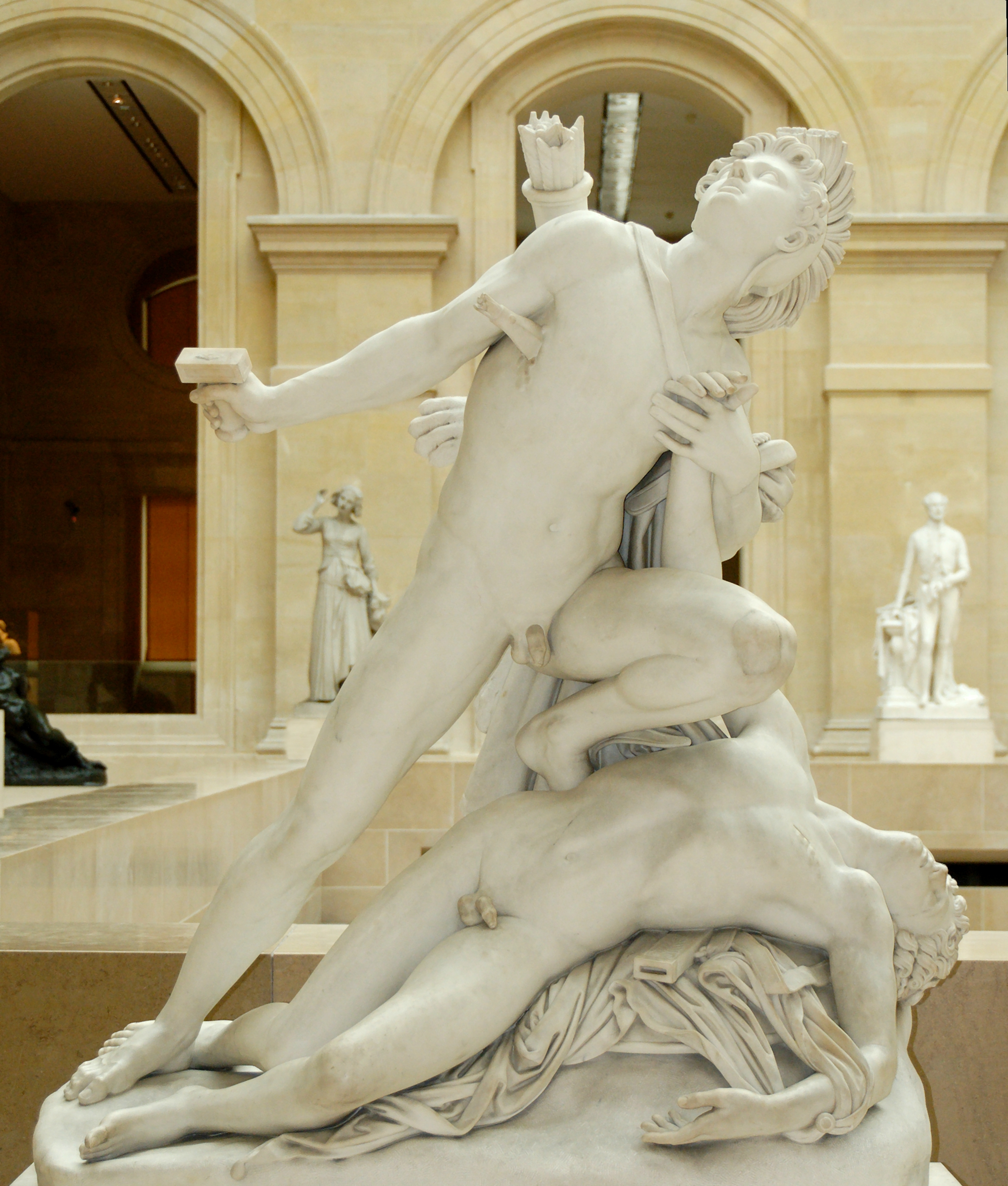 Nisus and Euryalus. Marble, exhibited at the 1827 Salon. A plaster model was exhibited at the 1822 Salon.